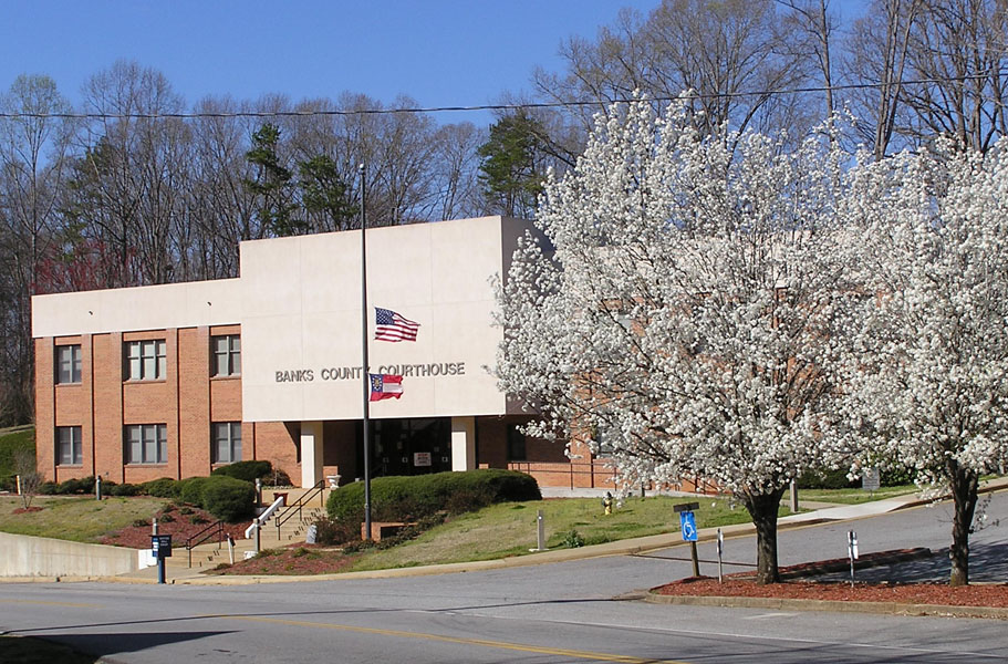 Photograph of the new Banks County courthouse located in Homer. Photograph taken by Richard Chambers, March 17, 2007. The new courthouse is behind the old courthouse and across the street from the old Banks County jail.